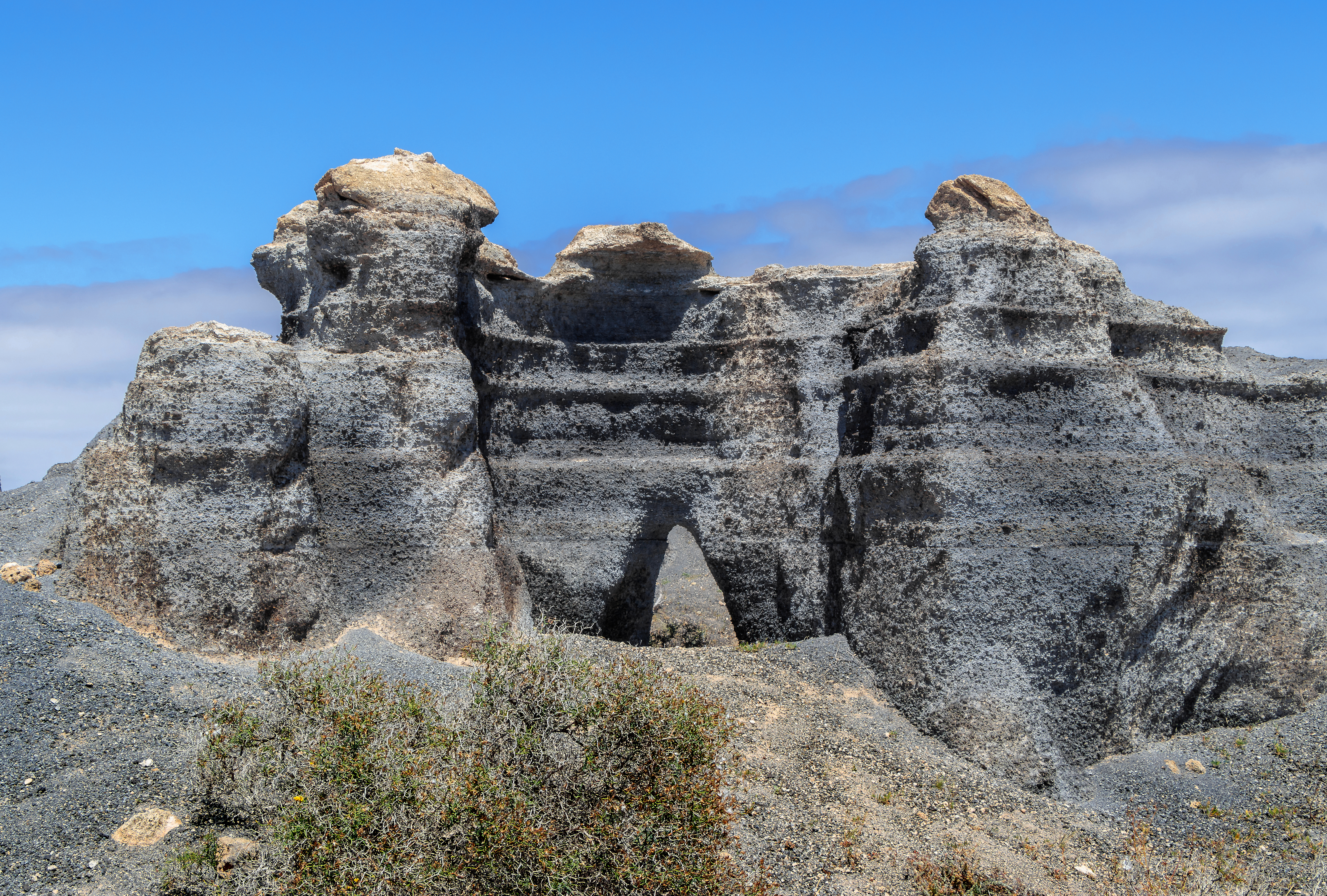 Erosion of tephra layers, between Teseguite and Guatiza, Lanzarote, Canary Islands, Spain.